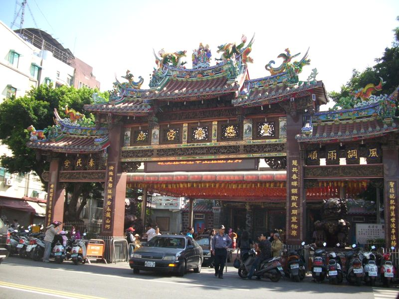 Ciji Temple, Fengyuan District, Taichung.